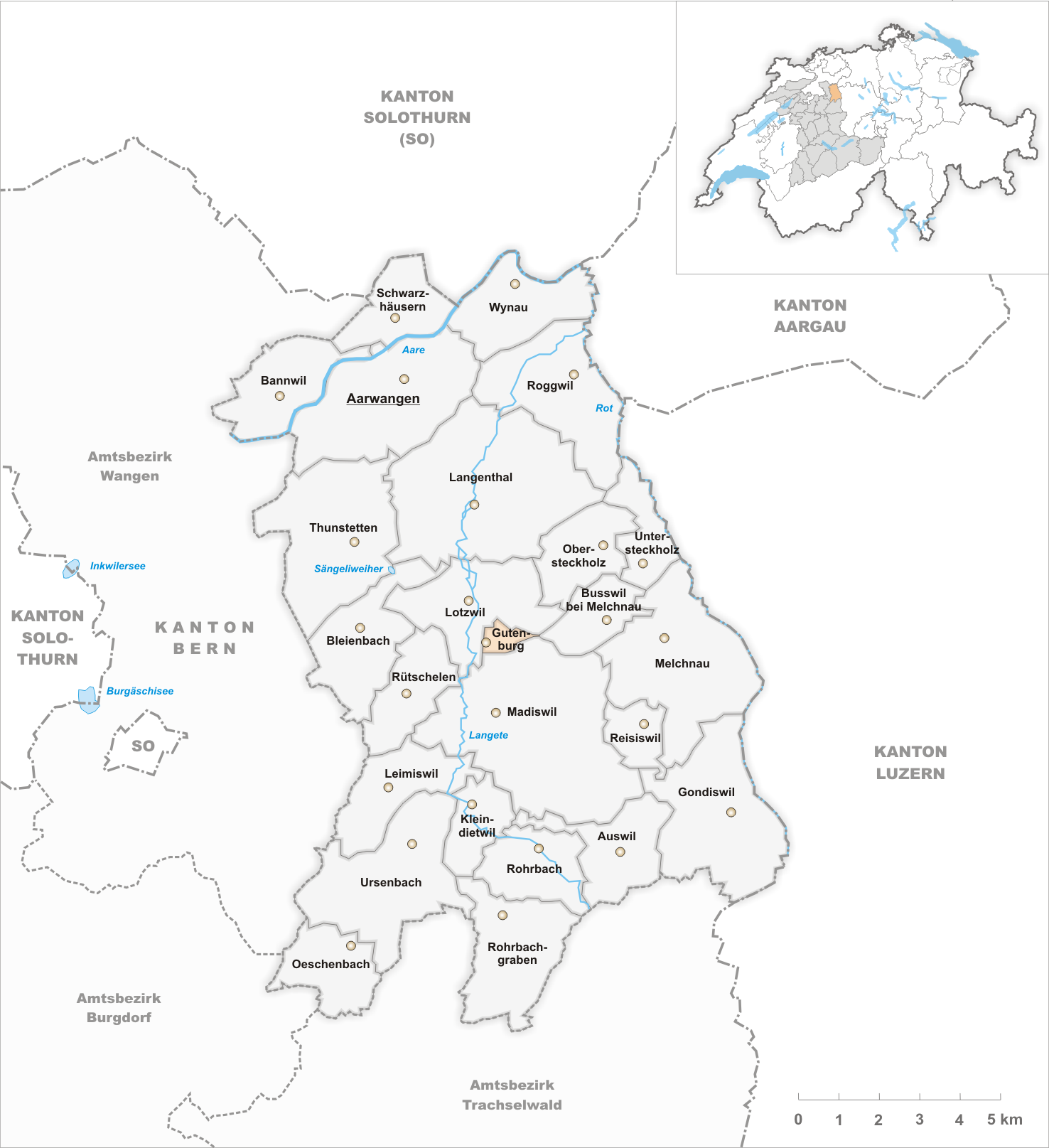 Municipality Gutenburg